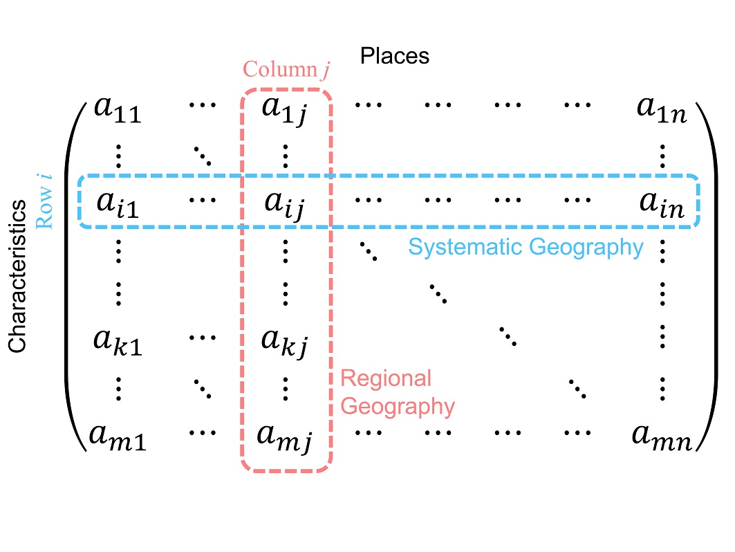 In this geographical matrix, the rows mean characteristics, the columns mean place, and the geographical phenomena are shown at the intersection of each row and column (matrix entry). Approaches to like systematic geography focus to one row (light blue) and Approaches to like regional geography focus to one column (pink).